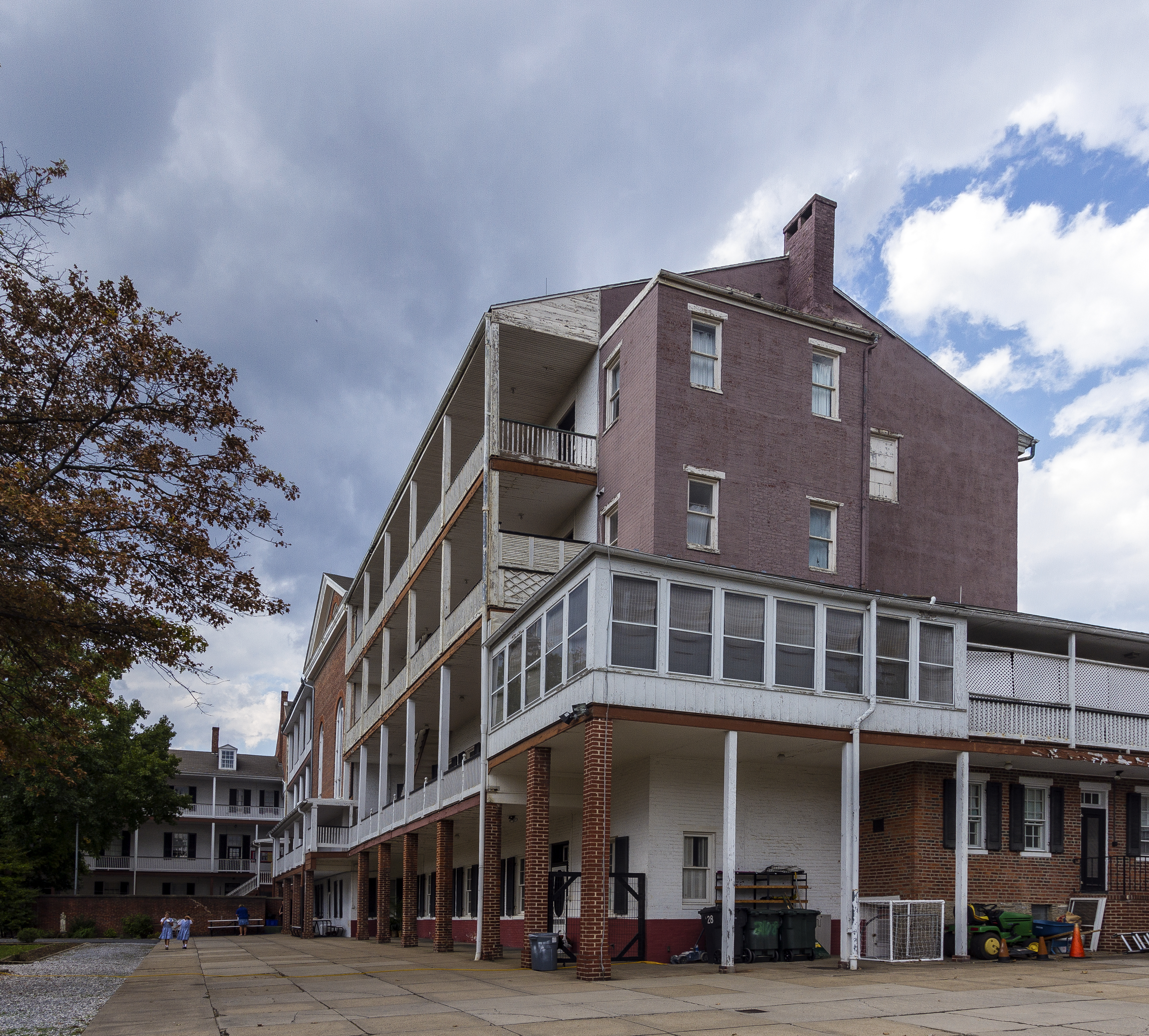 The Visitation Academy of Frederick in the Frederick Historic District